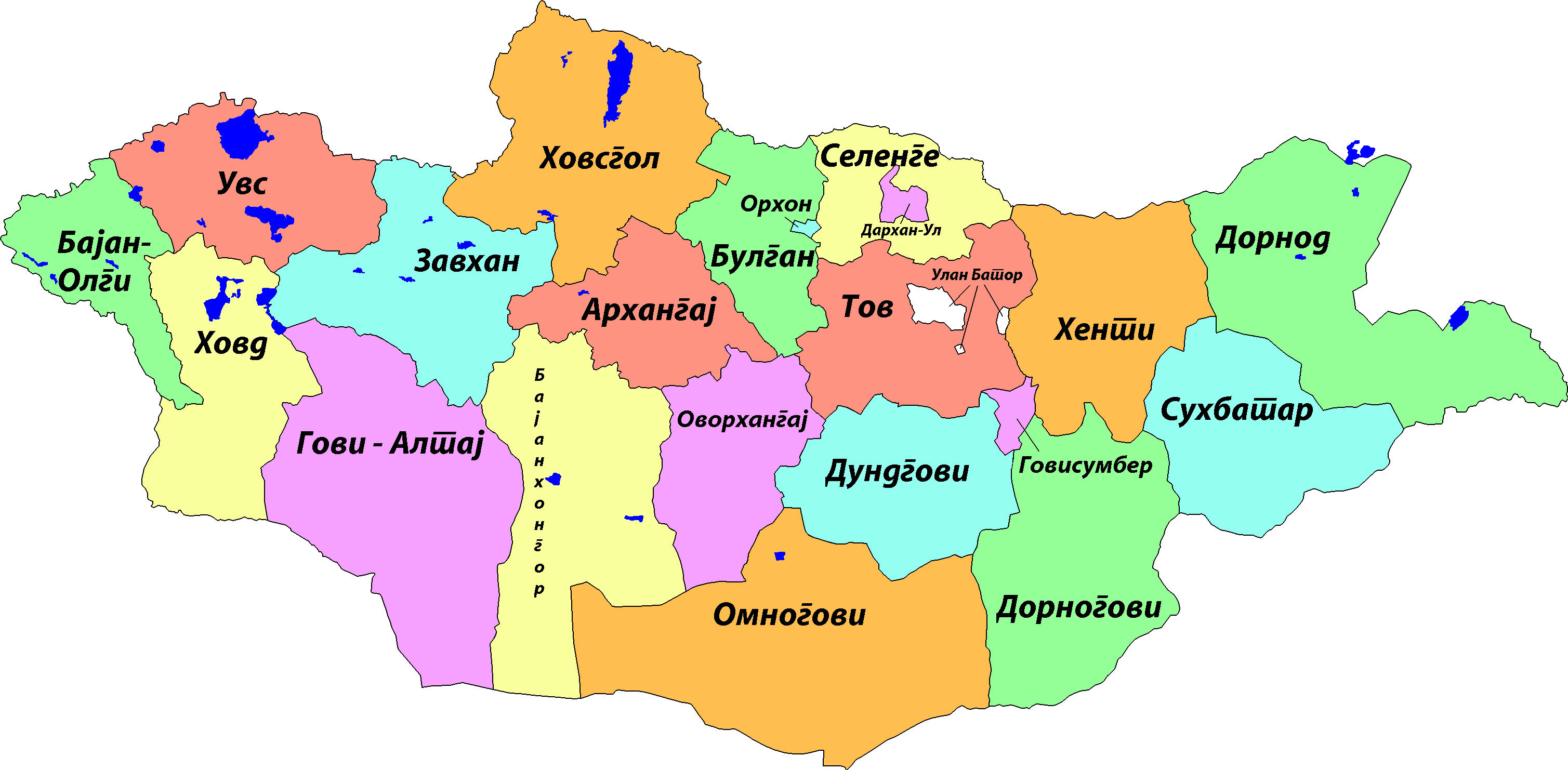 Translated map of the provinces of Mongolia on Macedonian language.